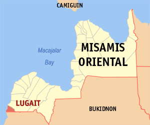 Map of the Misamis Oriental showing the location of Lugait